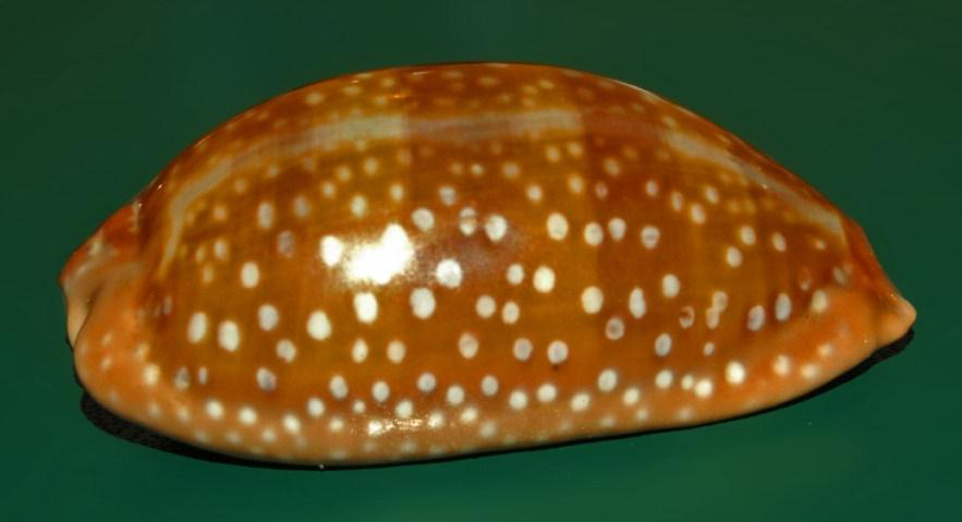 Macrocypraea cervinetta